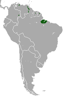 Emilia's Gracile Mouse Opossum (Gracilinanus emiliae) range